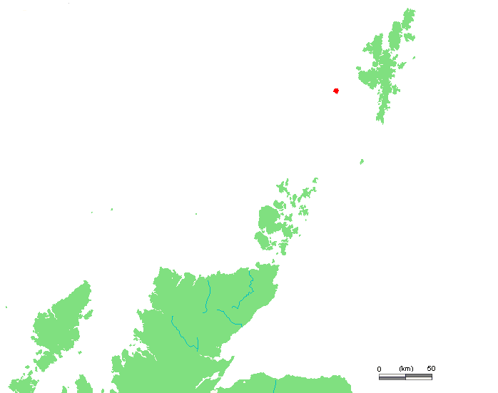 VK Foula.PNG (Orkney and Shetland islands, UK)